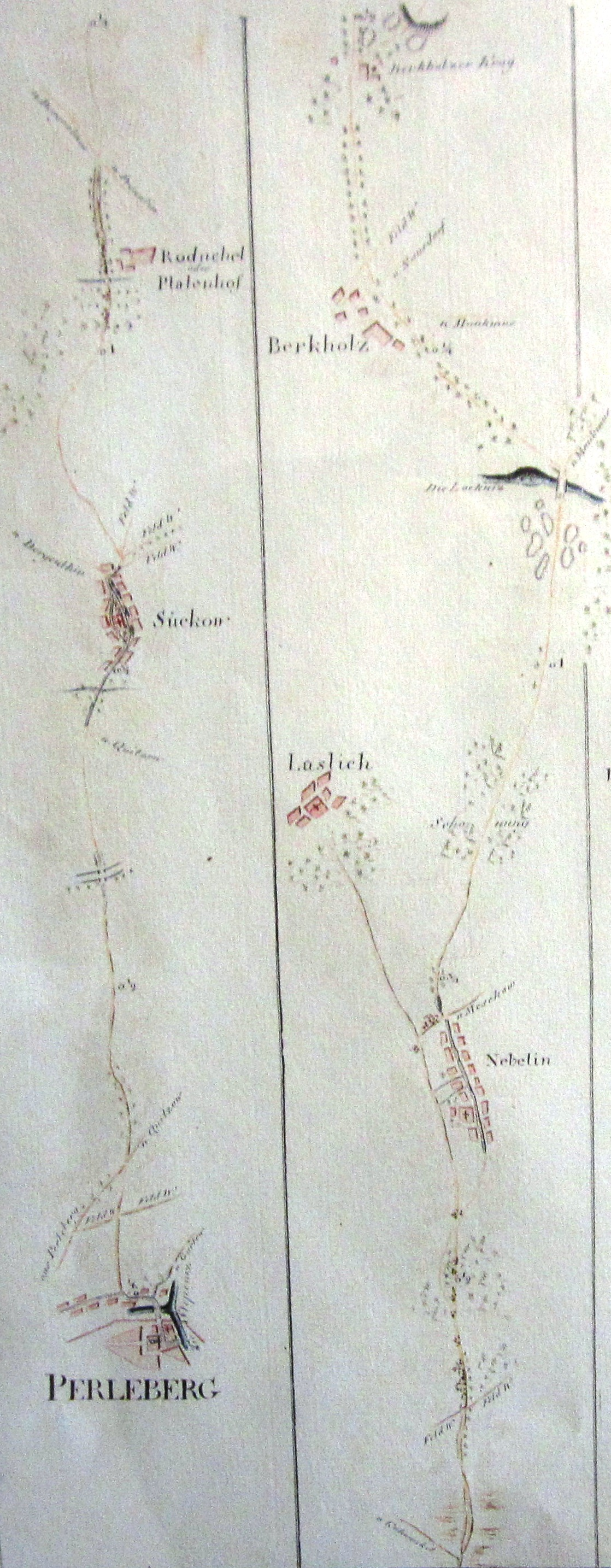 Histioric post road Berlin - Hamburg, 1800